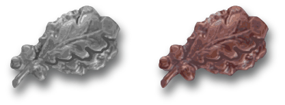 Silver and Bronze Oak Leaf Clusters. The Oak Leaf Cluster is a common device which is placed on U.S. military awards and decorations to denote those who have received more than one bestowal of a particular decoration. A bronze oak leaf cluster is worn to denote award of the second and subsequent awards of the same decoration. A silver oak leaf cluster is worn instead of five bronze oak leaf clusters.